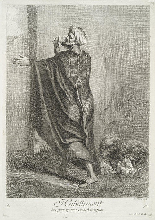 Illustrations of Ottomans by Jean-Baptiste Vanmour, 1707